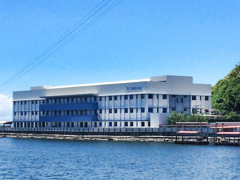 Sutherland Global Services Building, Embarcadero IT Park, Legazpi